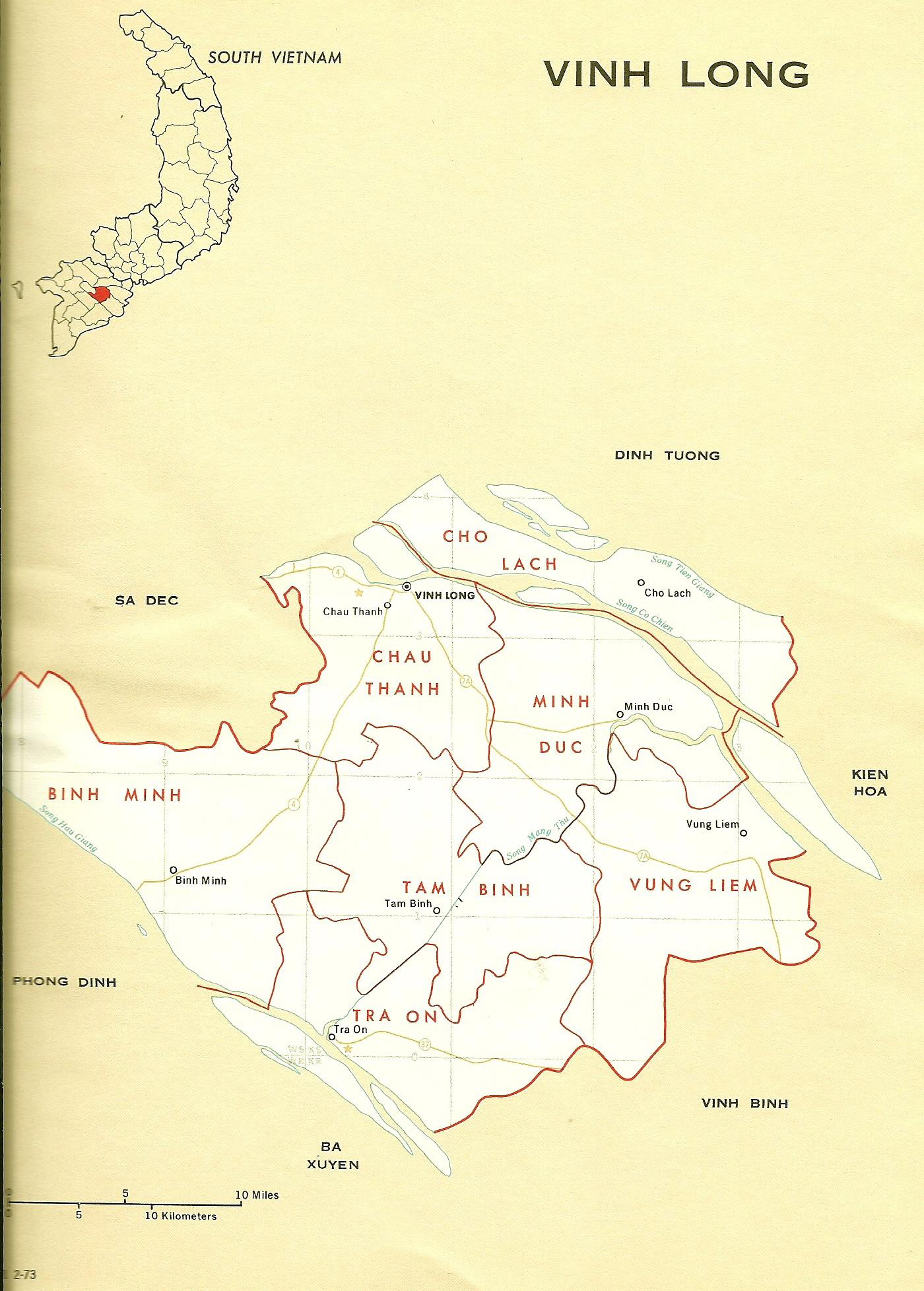 Vinh-long Province 1973